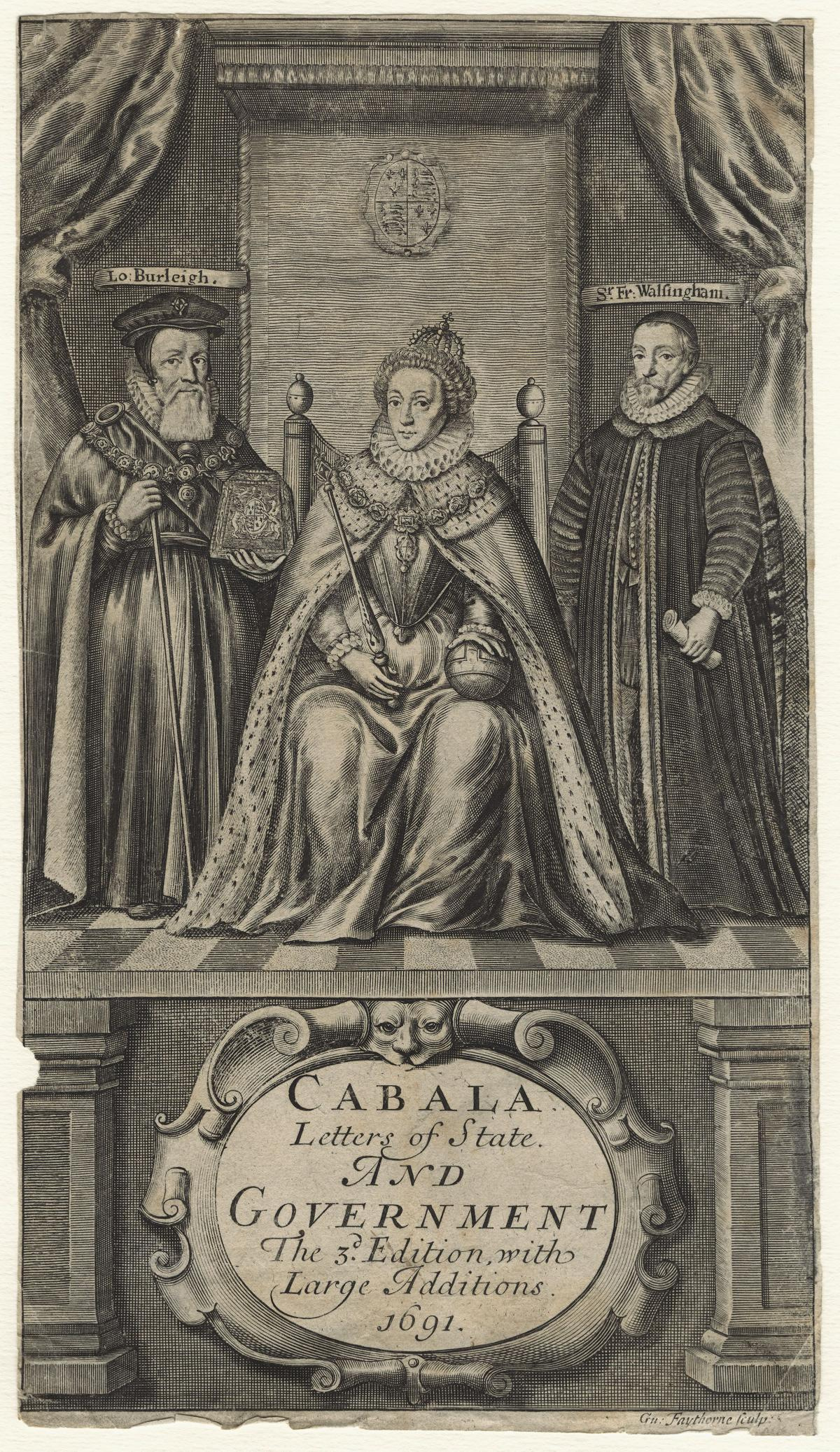 Queen Elizabeth I; William Cecil, 1st Baron Burghley; Sir Francis Walsingham, by William Faithorne (died 1696), published 1691. All images in this batch have been confirmed as author died before 1939 according to the official death date listed by the NPG.